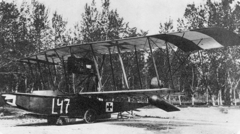 Lohner L